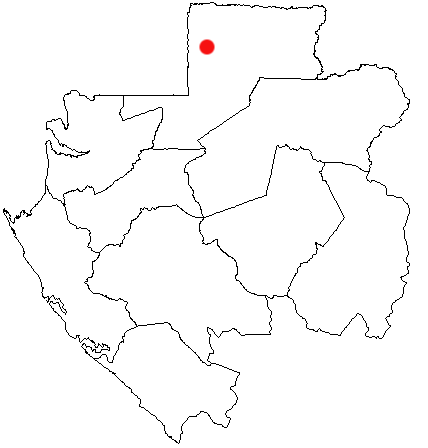 Oyem, Gabon Location Map, created with the GIMP.